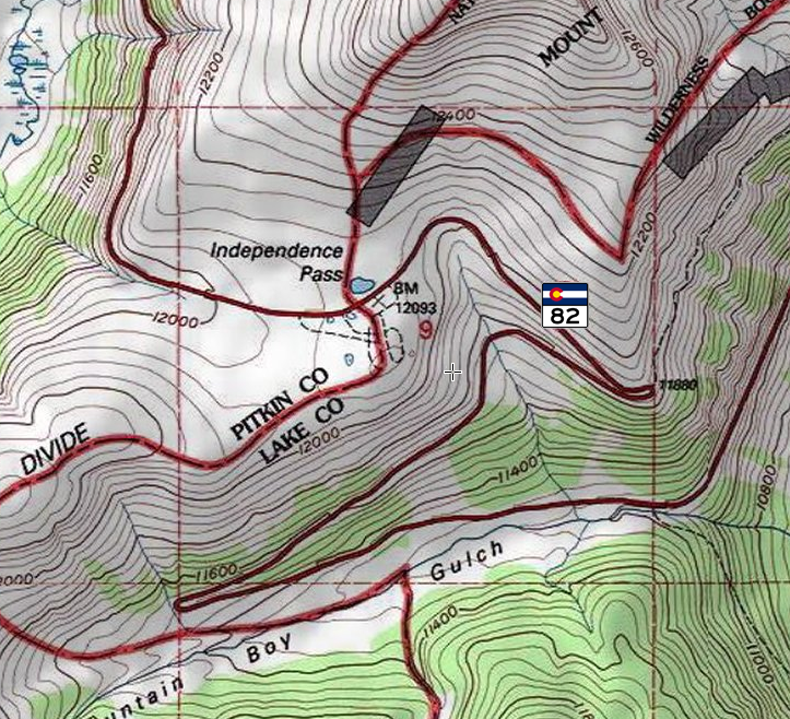 USGS map of Independence Pass